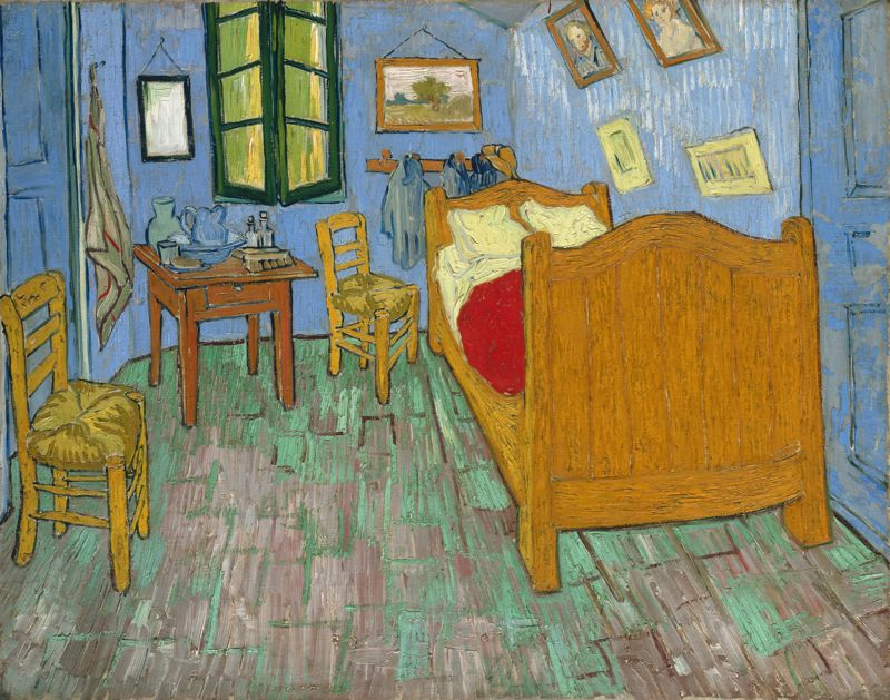 The Bedroom (1889) by Vincent van Gogh, Oil on canvas, 73.6 x 92.3 cm, Art Institute of Chicago